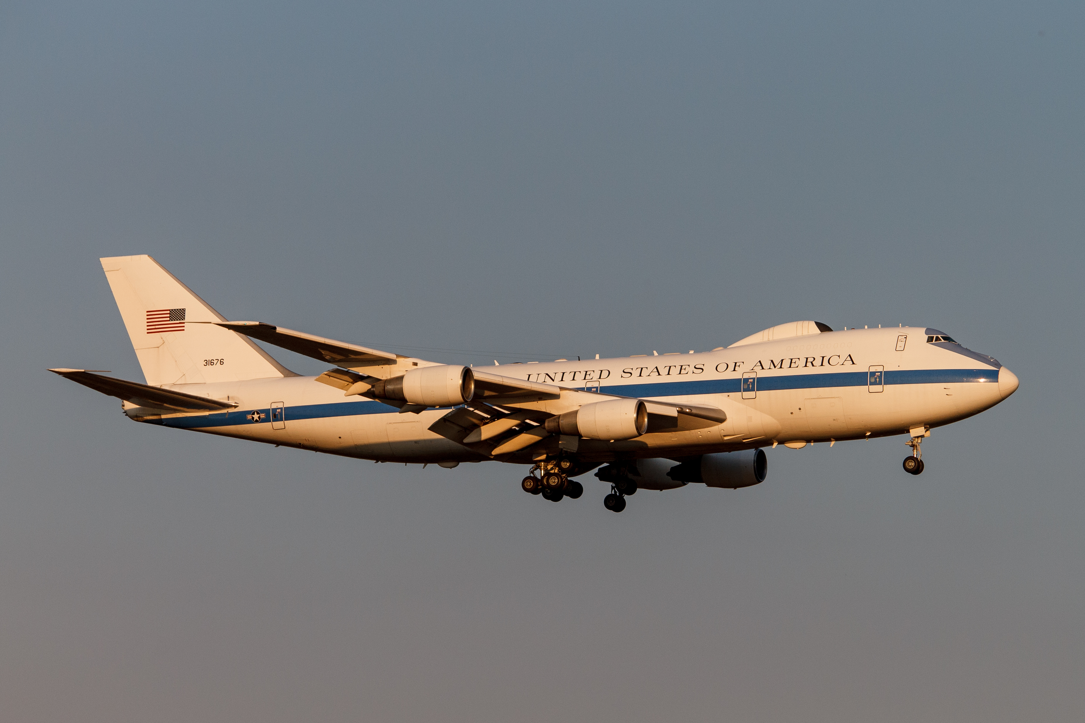 An E-4 on approach to Tinker AFB, Oklahoma.